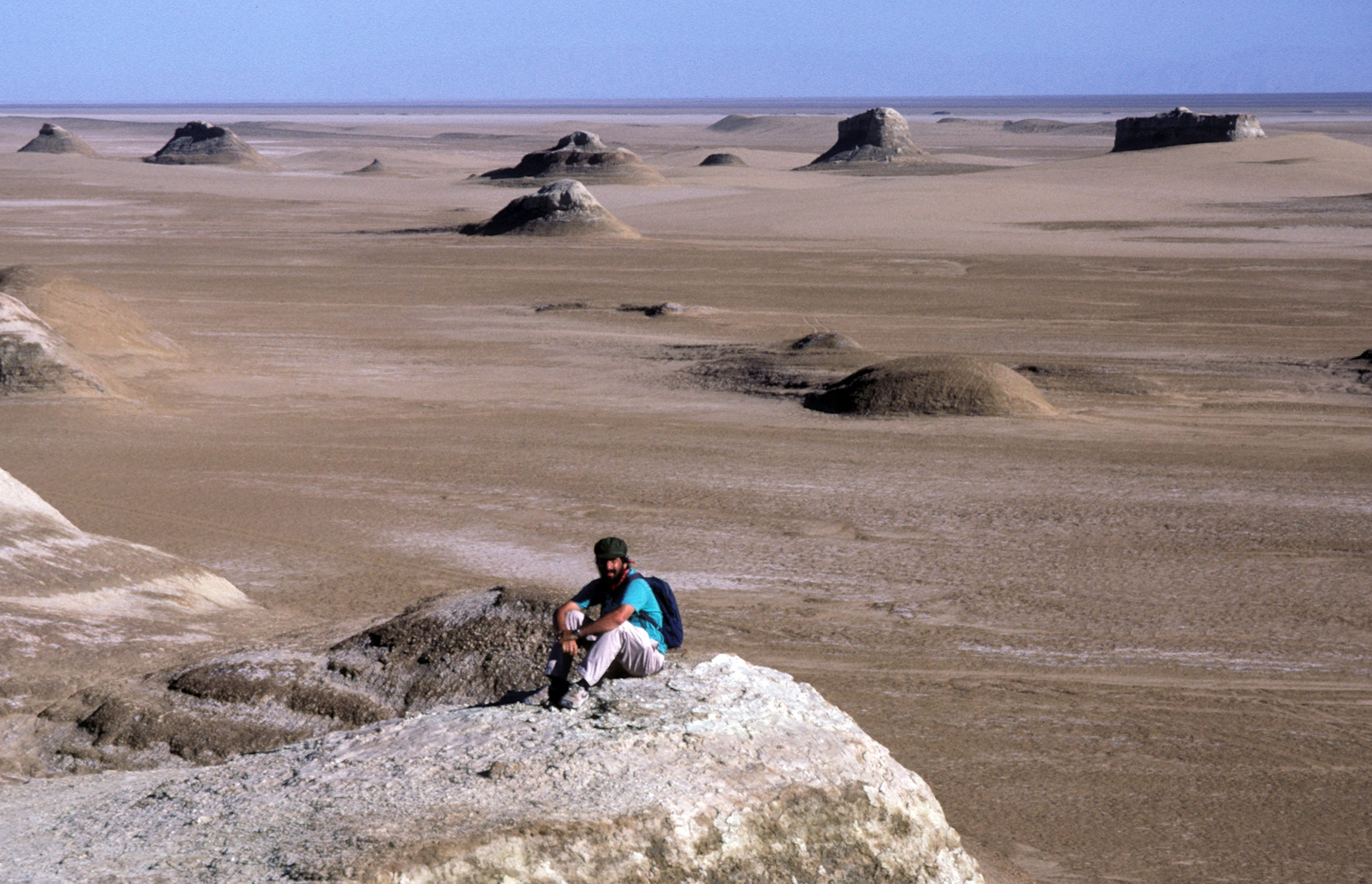 "Geologist, sedimentation expert and Mars Science Laboratory team member David Rubin of the USGS Pacific Coastal and Marine Science Center investigates longitudinal dunes in China's Qaidam Basin. He comments: "The landscape has some similarity with Mars: almost total lack of vegetation and wind-formed landscape." " Credit: U.S. Geological Survey Department of the Interior/USGS U.S. Geological Survey/photo by David Rubin